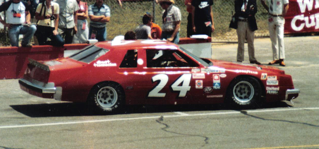 Cecil Gordon and his self owned #24 Chrysler. Cecil finished 23rd in the 1983 Van Scoy 500.